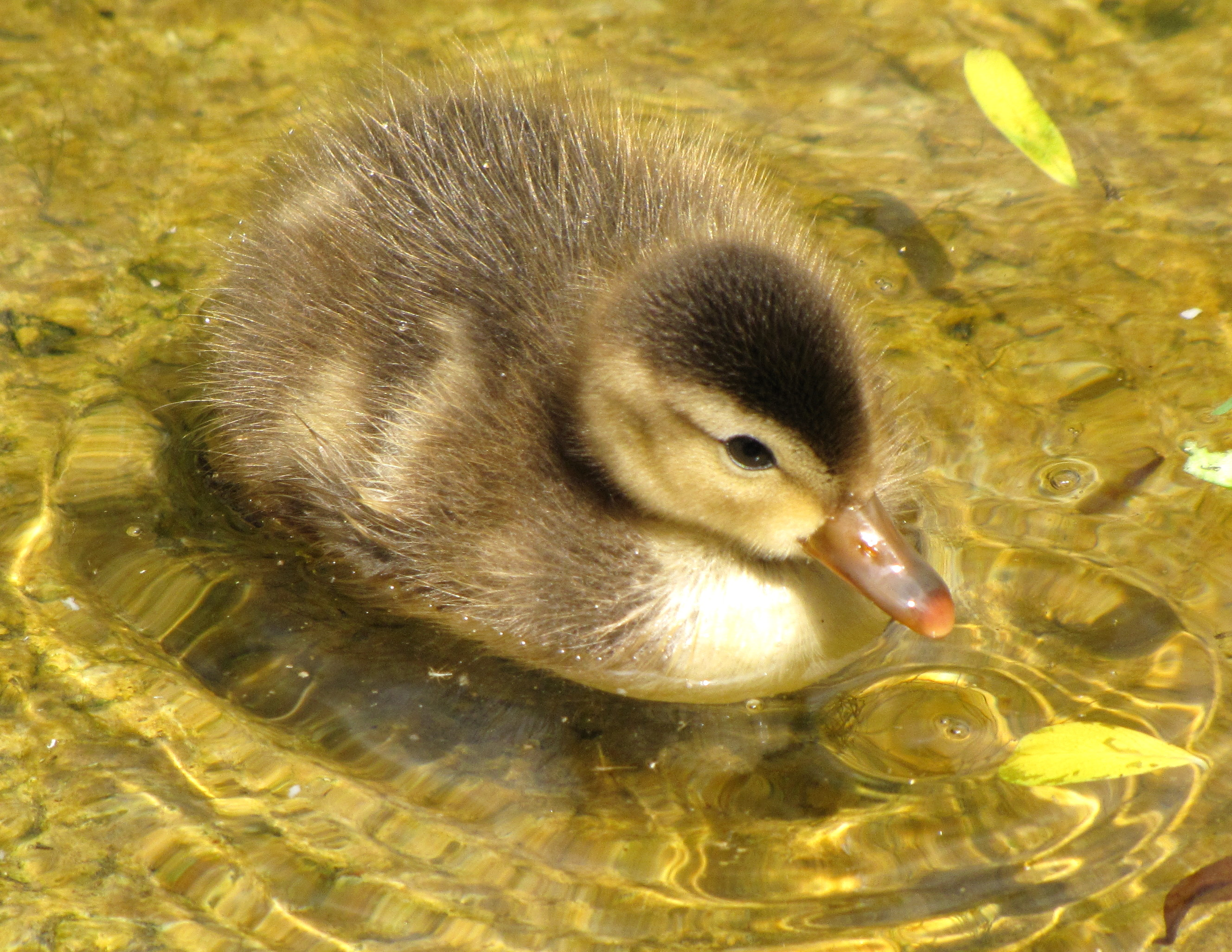 A Red-crested Pochard duckling at St James's Park, London, England.